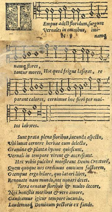 The first page of "Tempus adest floridum" in the original version of the 1582 Piae Cantiones. The carol melody is now better known as "Good King Wenceslas" after the added Victorian text by JM Neale.